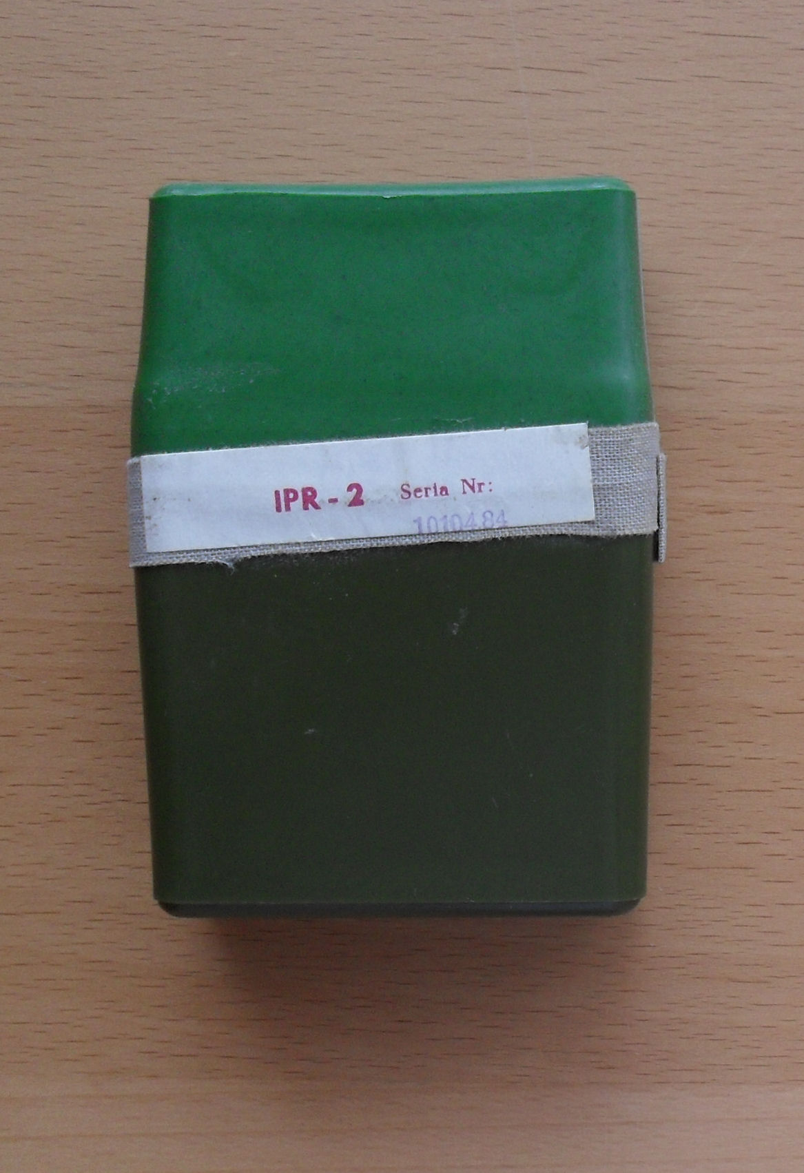 IPR from 1984 outside (trening kit)